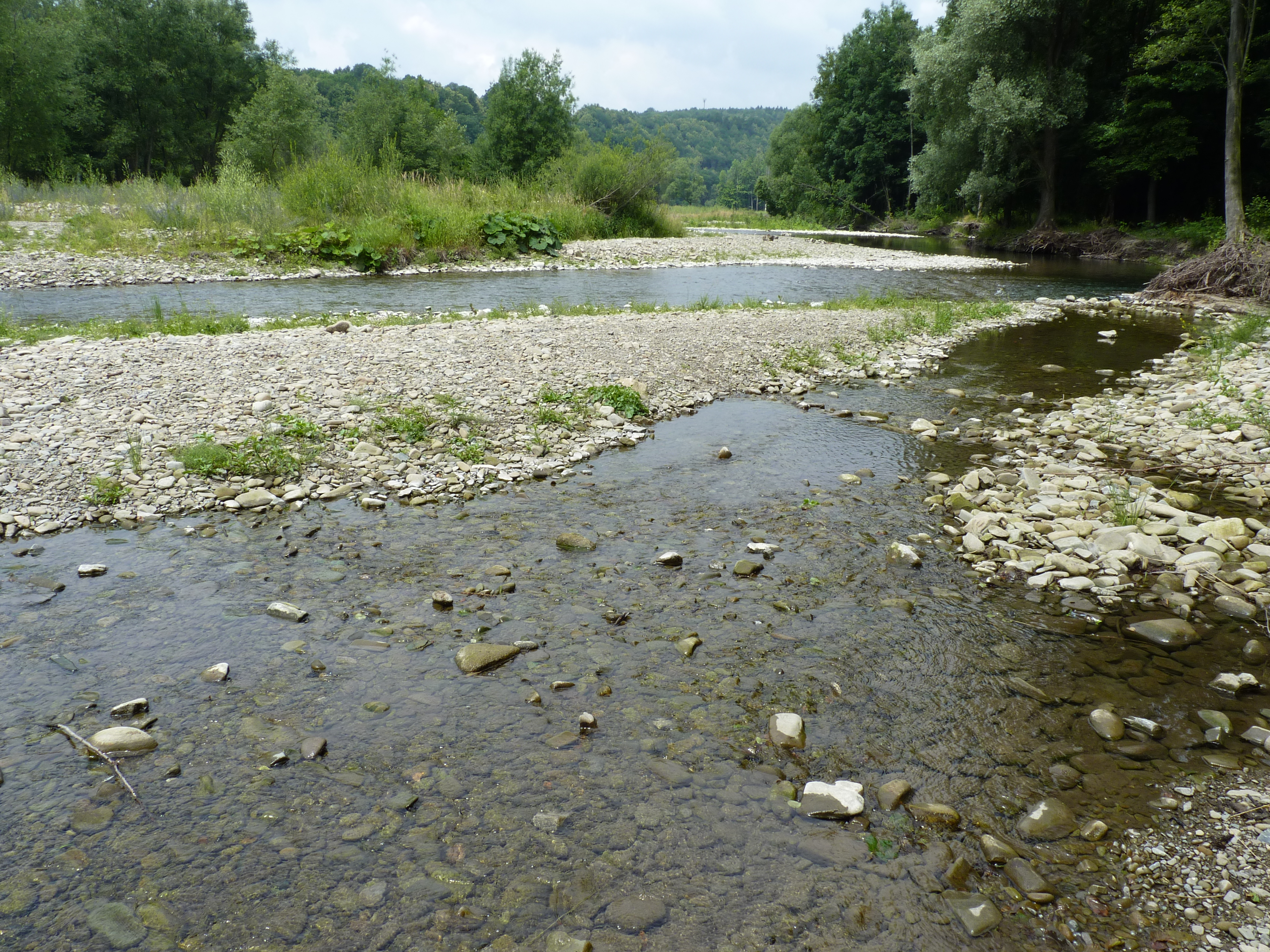 National nature reserve Skalická Morávka. Frýdek-Místek District, Moravian-Silesian Region, Czech Republic